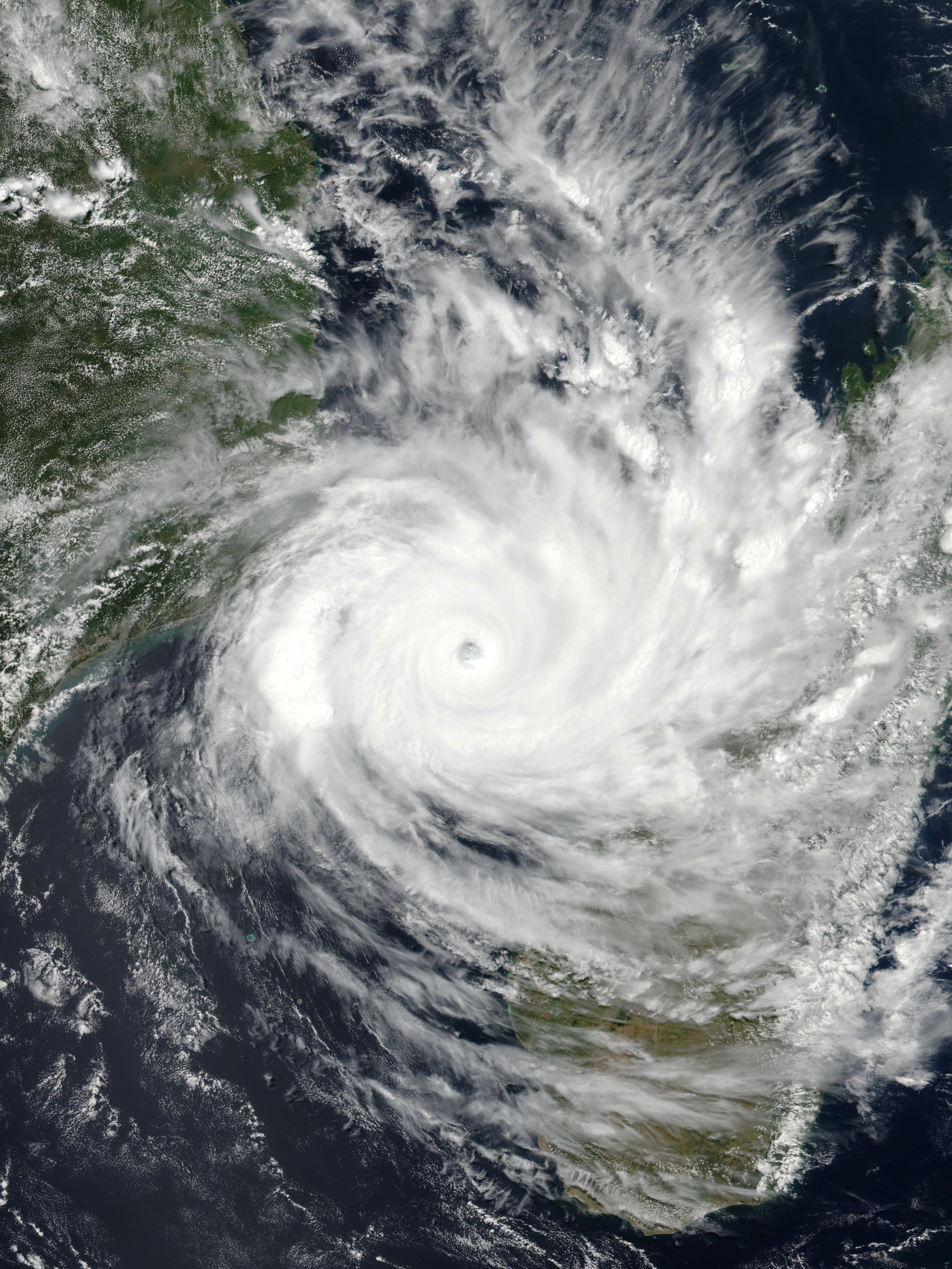 Intense Tropical Cyclone Idai at its initial peak intensity on March 11, 2019.